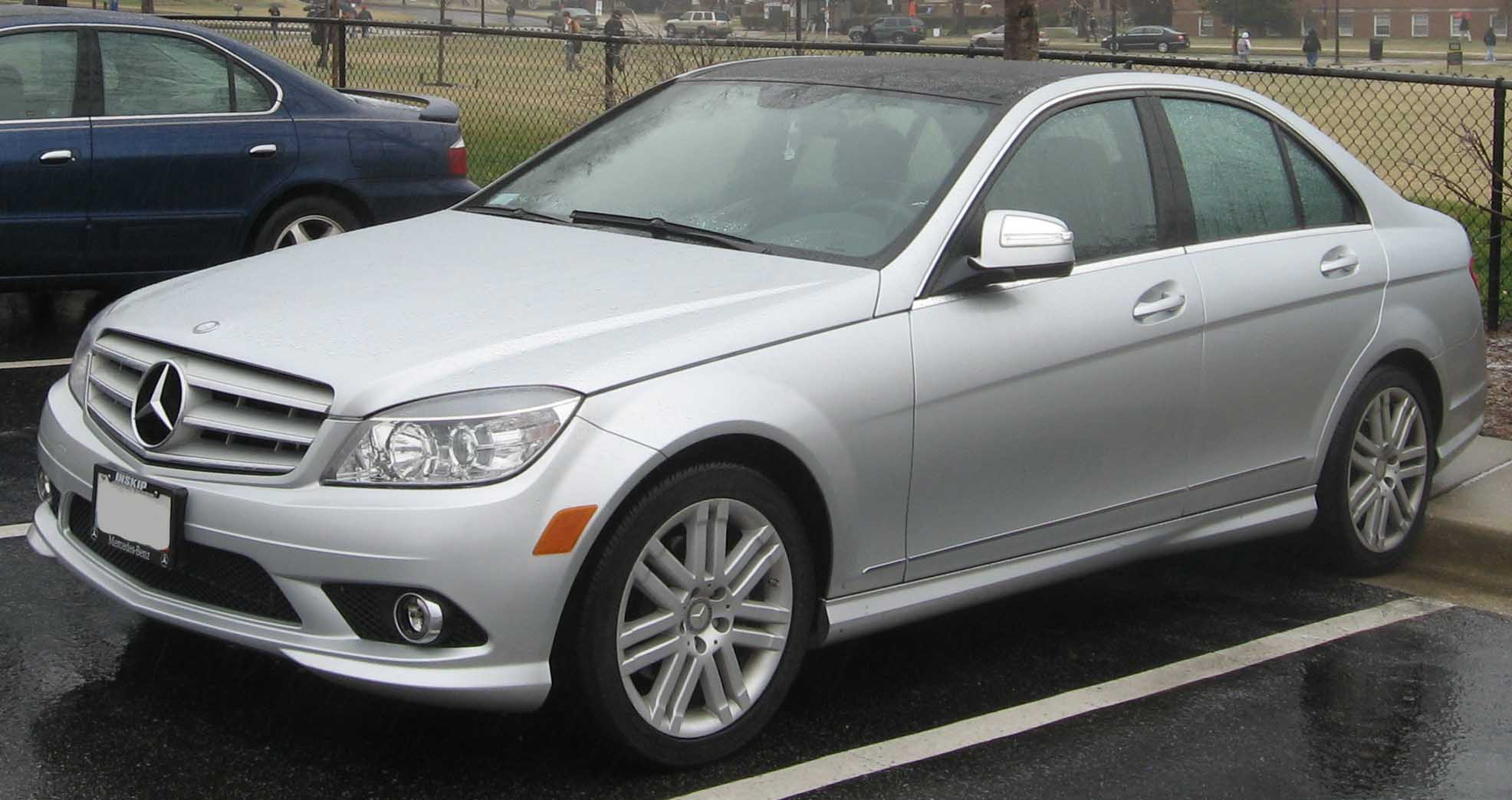 2008 Mercedes-Benz C300 photographed in College Park, Maryland, USA.